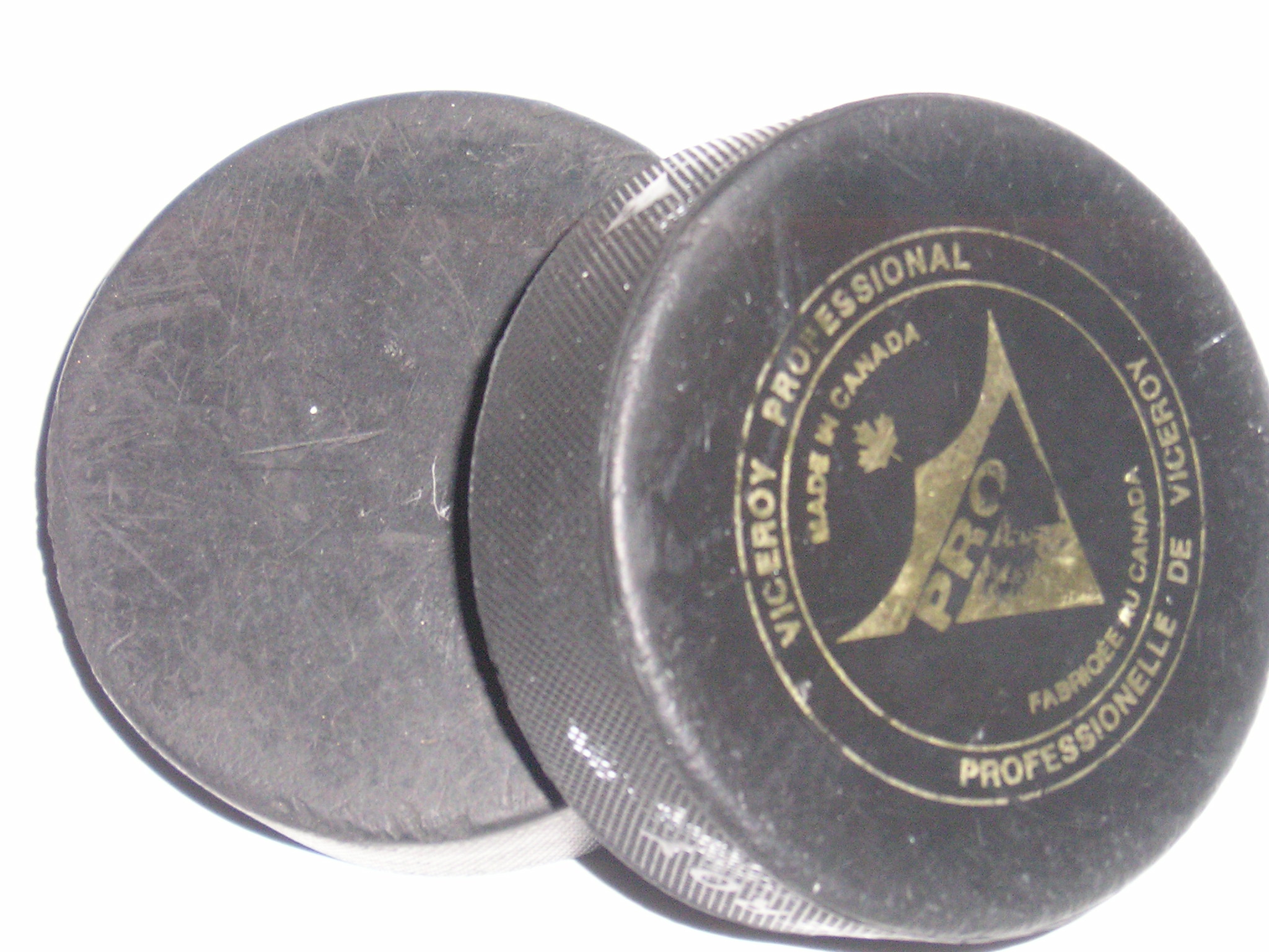 2 hockey pucks on white sheet of paper photographed by myself. One contains the logo of a Canadian puck company.